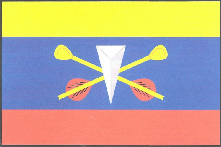 Flag of Čižice, Plzeň-South District